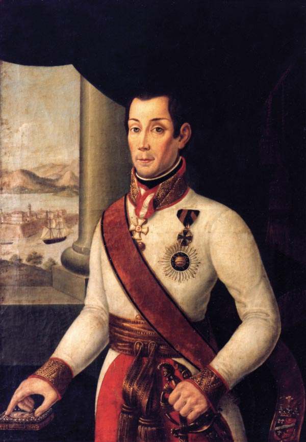 Baron Franjo Ksaver Tomašić /Francis Xavier Tomashich/ (1761-1831), Croatian nobleman and general of the Habsburg Monarchy imperial army